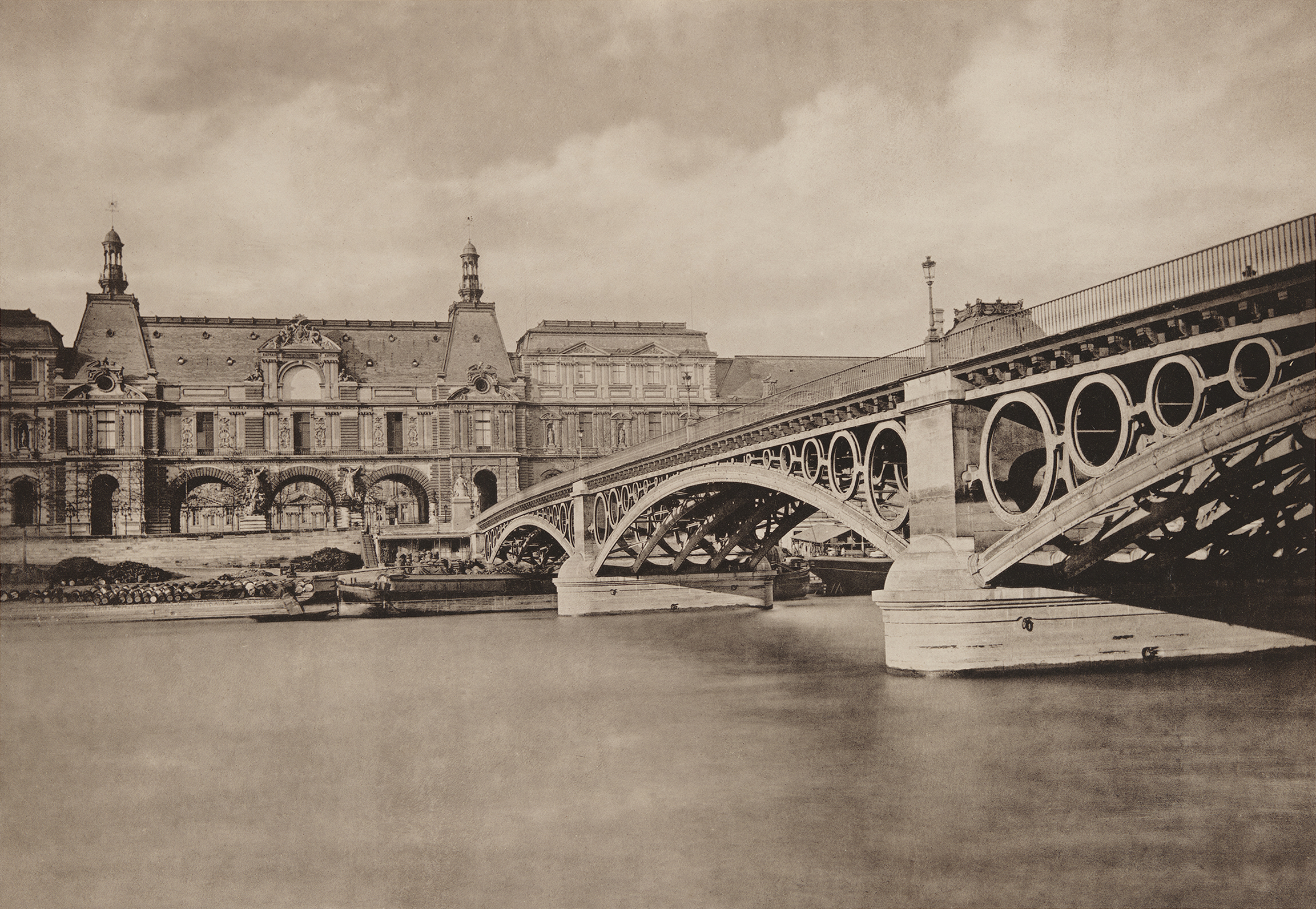 The Pont du Carrousel on the river Seine in Paris, with the Grands Guichets of the Louvre in the background.